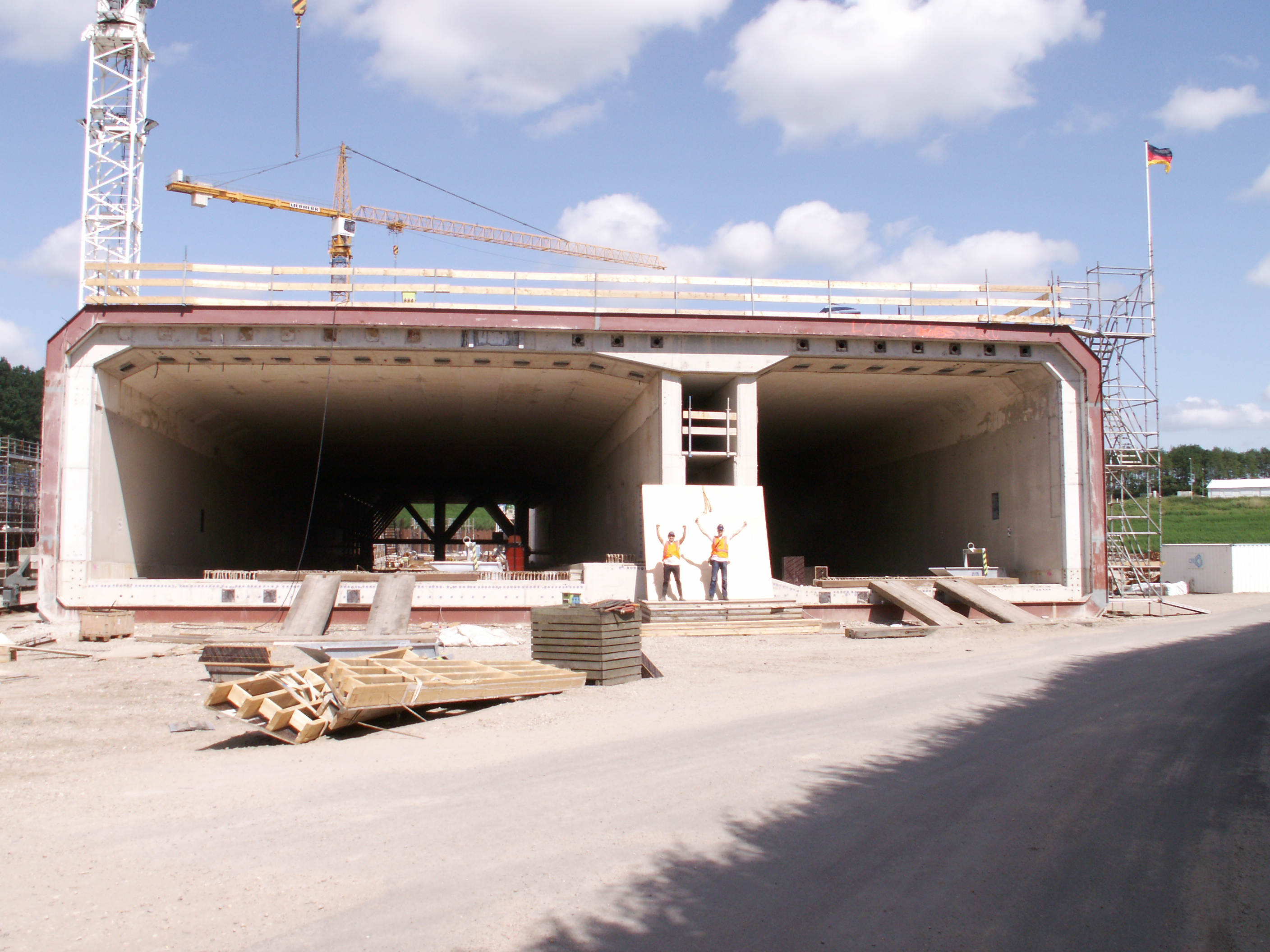 2e Coentunnel (Amsterdam - Netherlands) Immersed tunnel element.